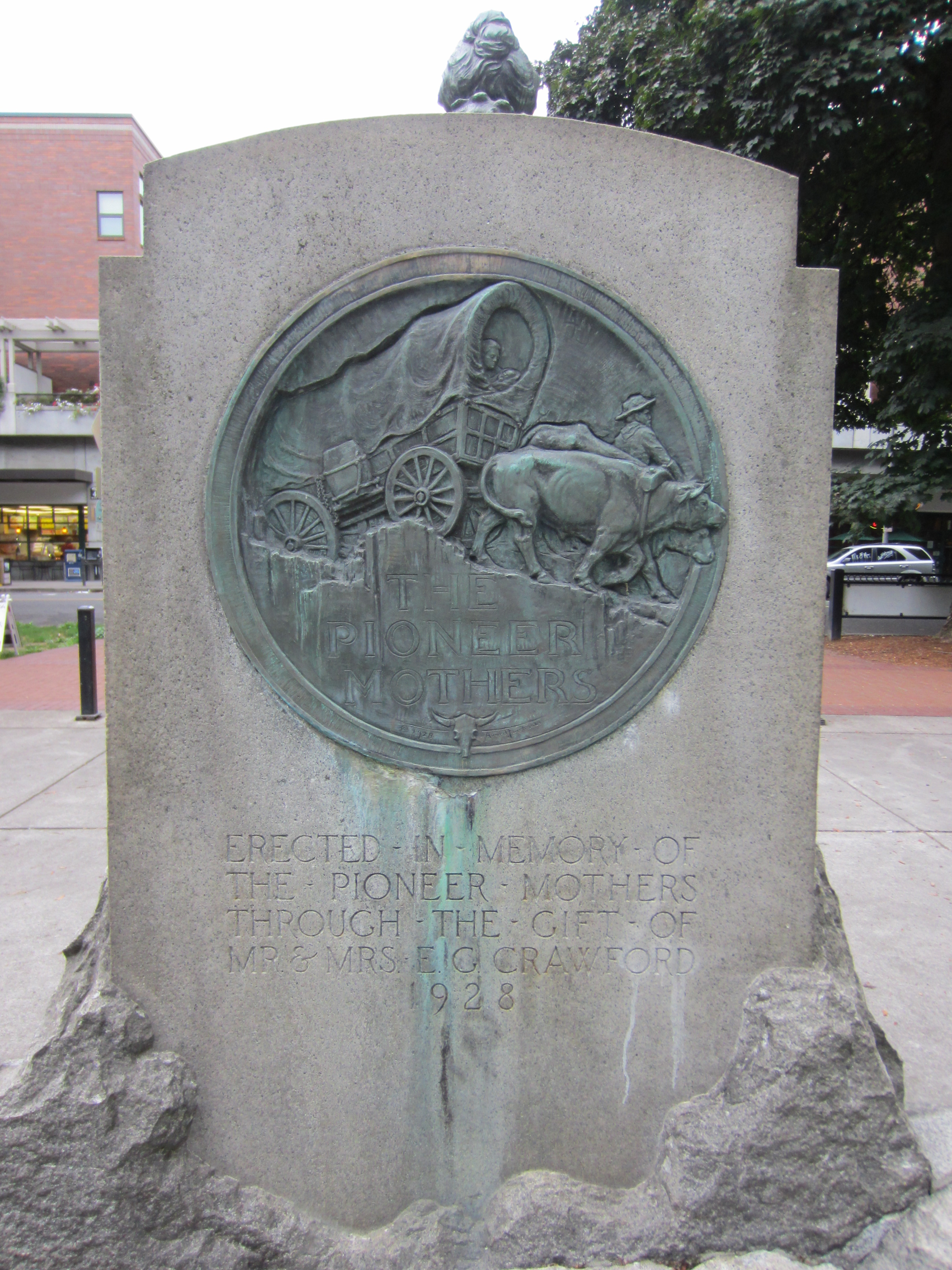 The Pioneer Memorial by Avard Fairbanks in Esther Short Park in Vancouver, Washington in September 2013